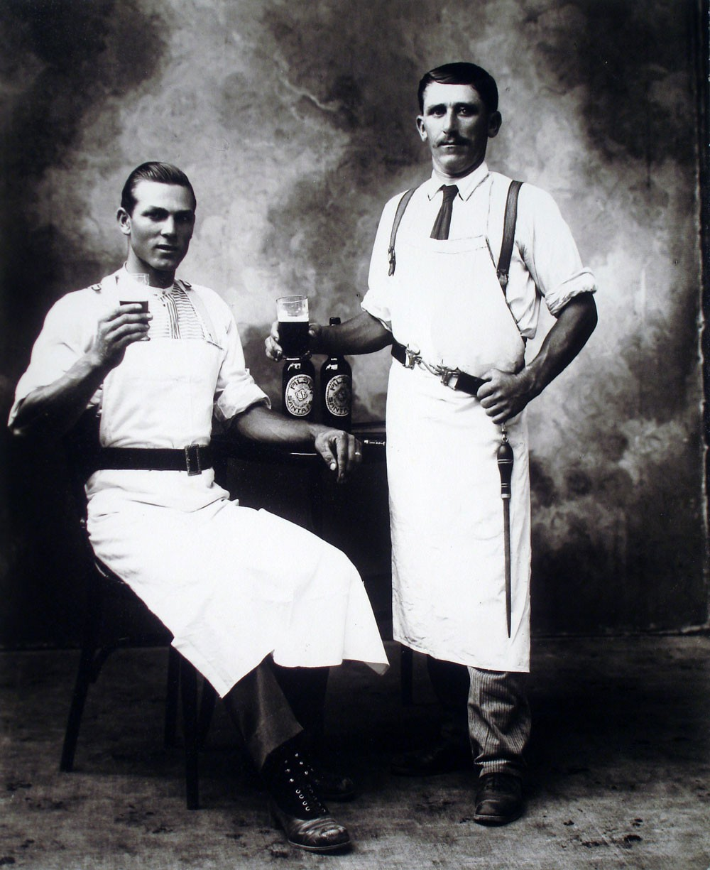 Two workers having a toast.